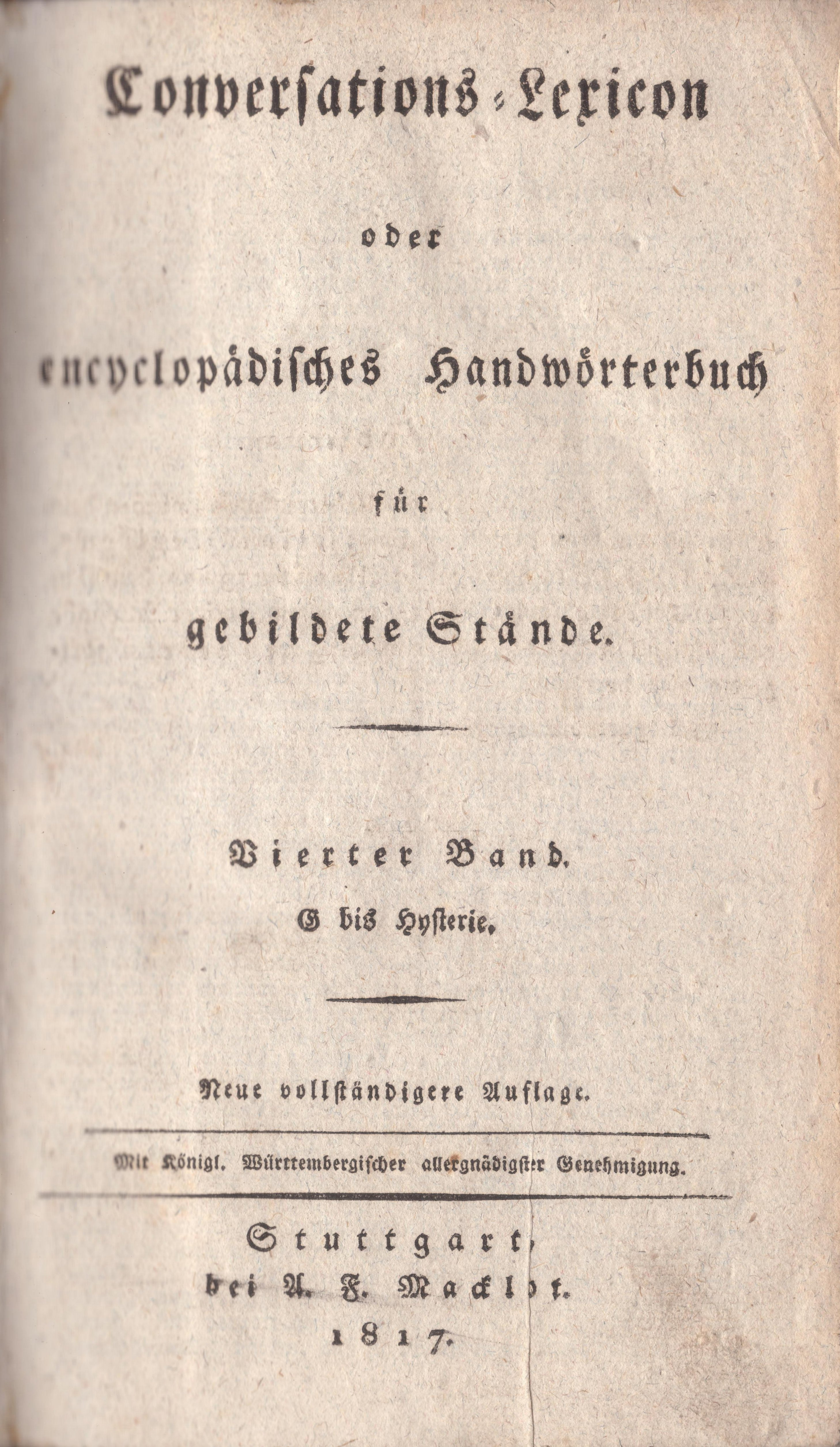 Macklot-Nachdruck des Brockhaus' 3. Auflage, Bd. 4, Stuttgart, Titelblatt